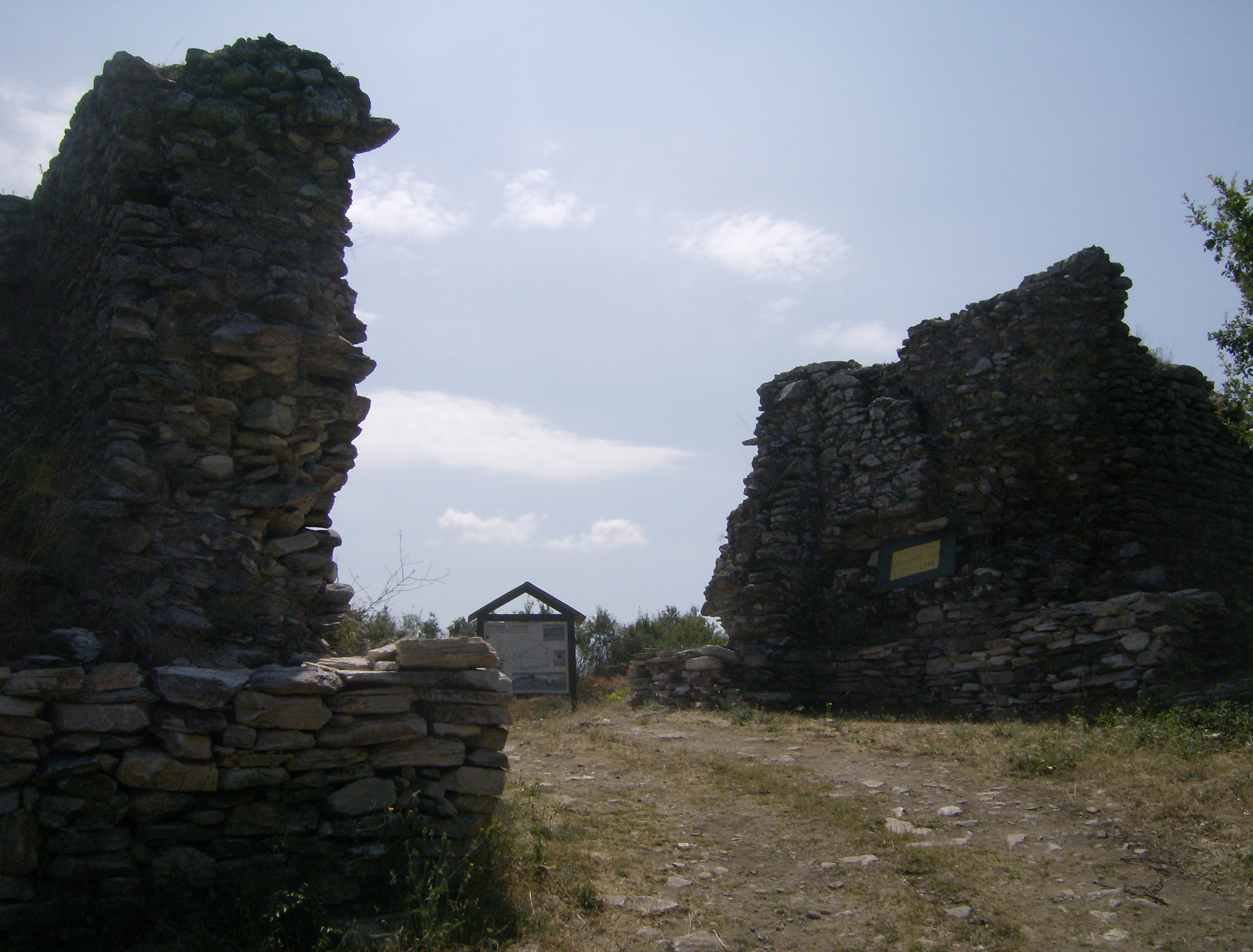 Lyutitsa Fortress